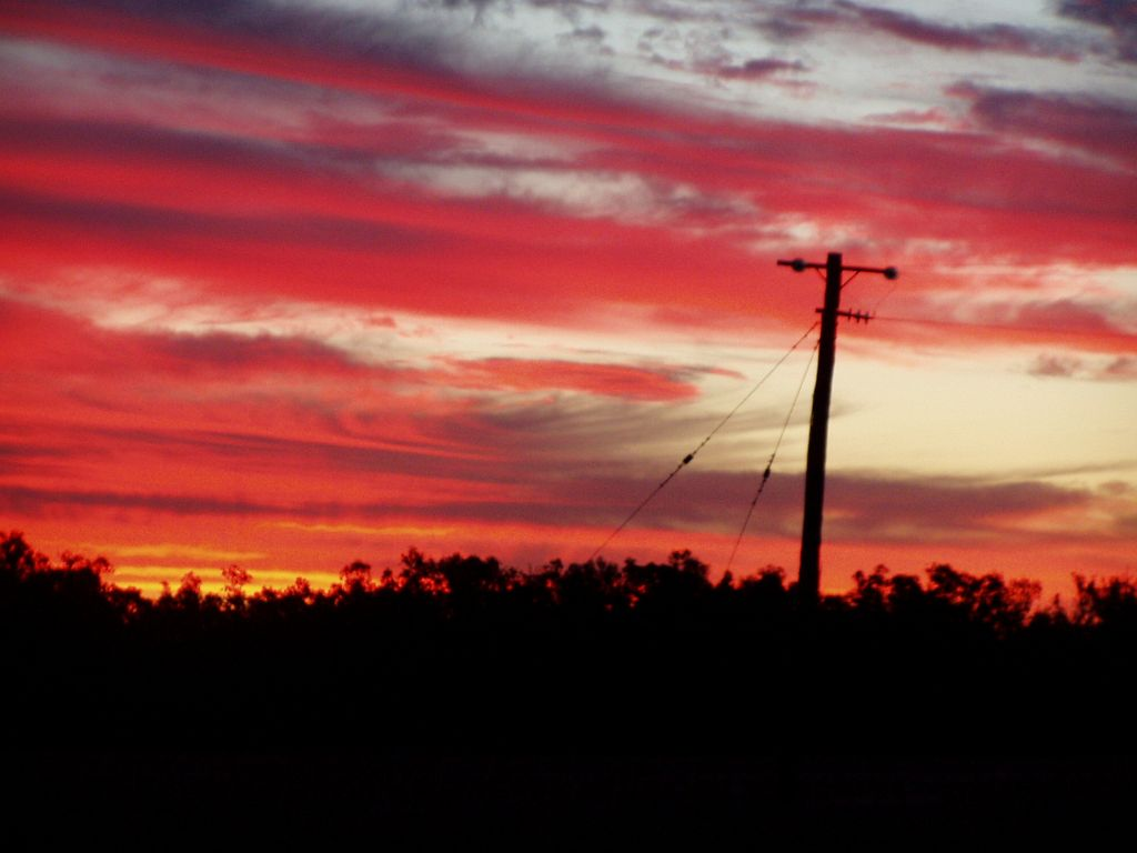 Angry Sky. A sunset over the wheat fields and tree line in Pallamallawa.